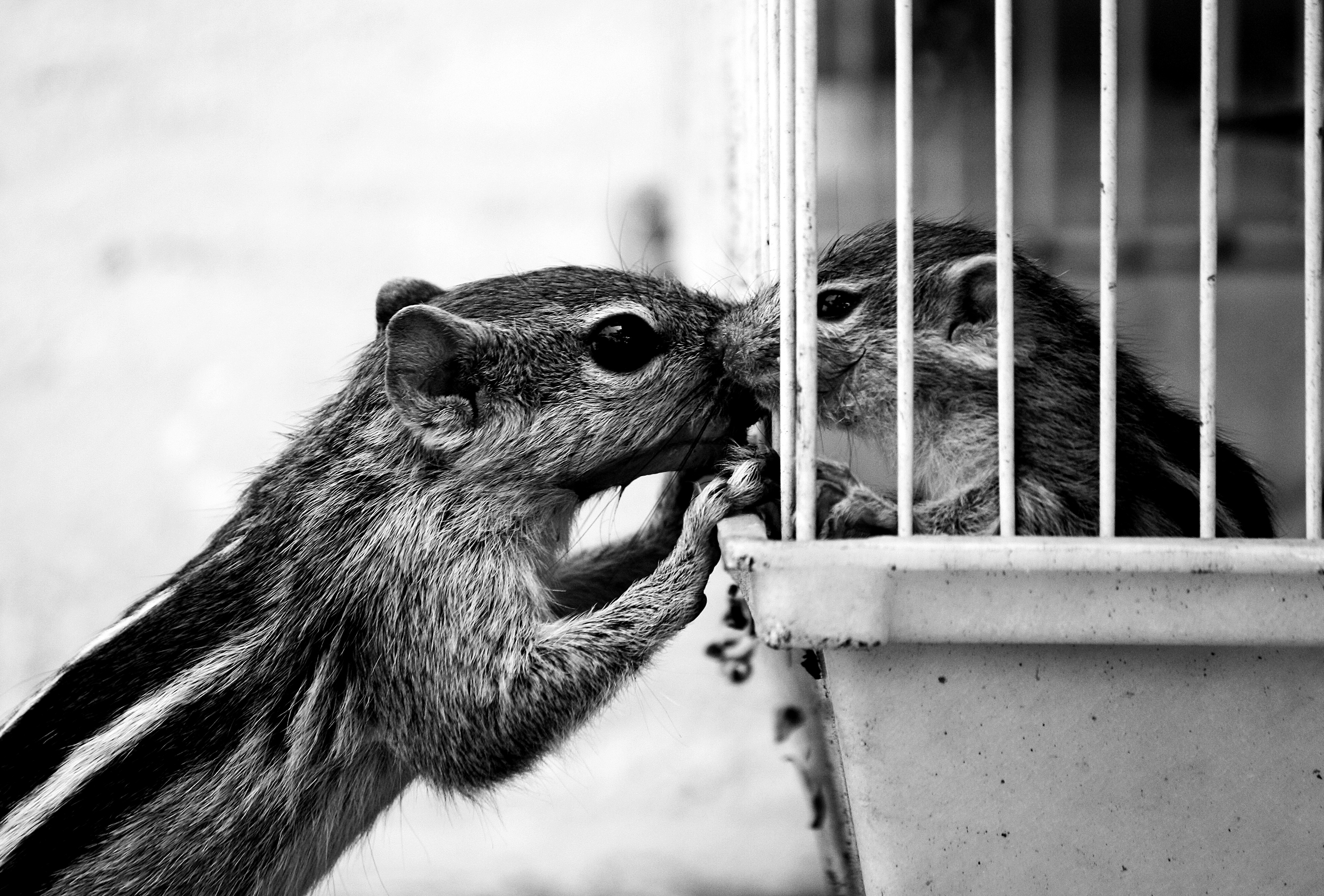 An Indian palm squirrel shares its emotional feeling (love, care, fear) with its pup, which is in a cage. Photographed in June 2011, in (Batticaloa, Sri Lanka)